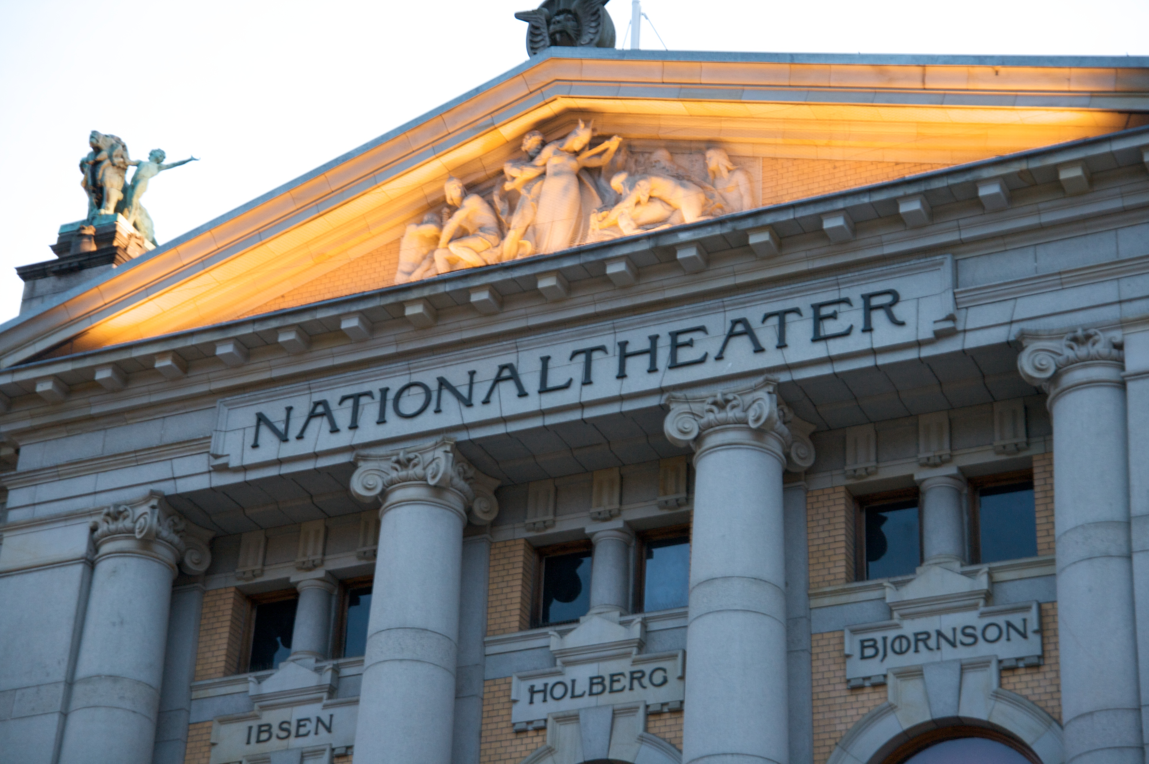 Nationaltheatret i Oslo.